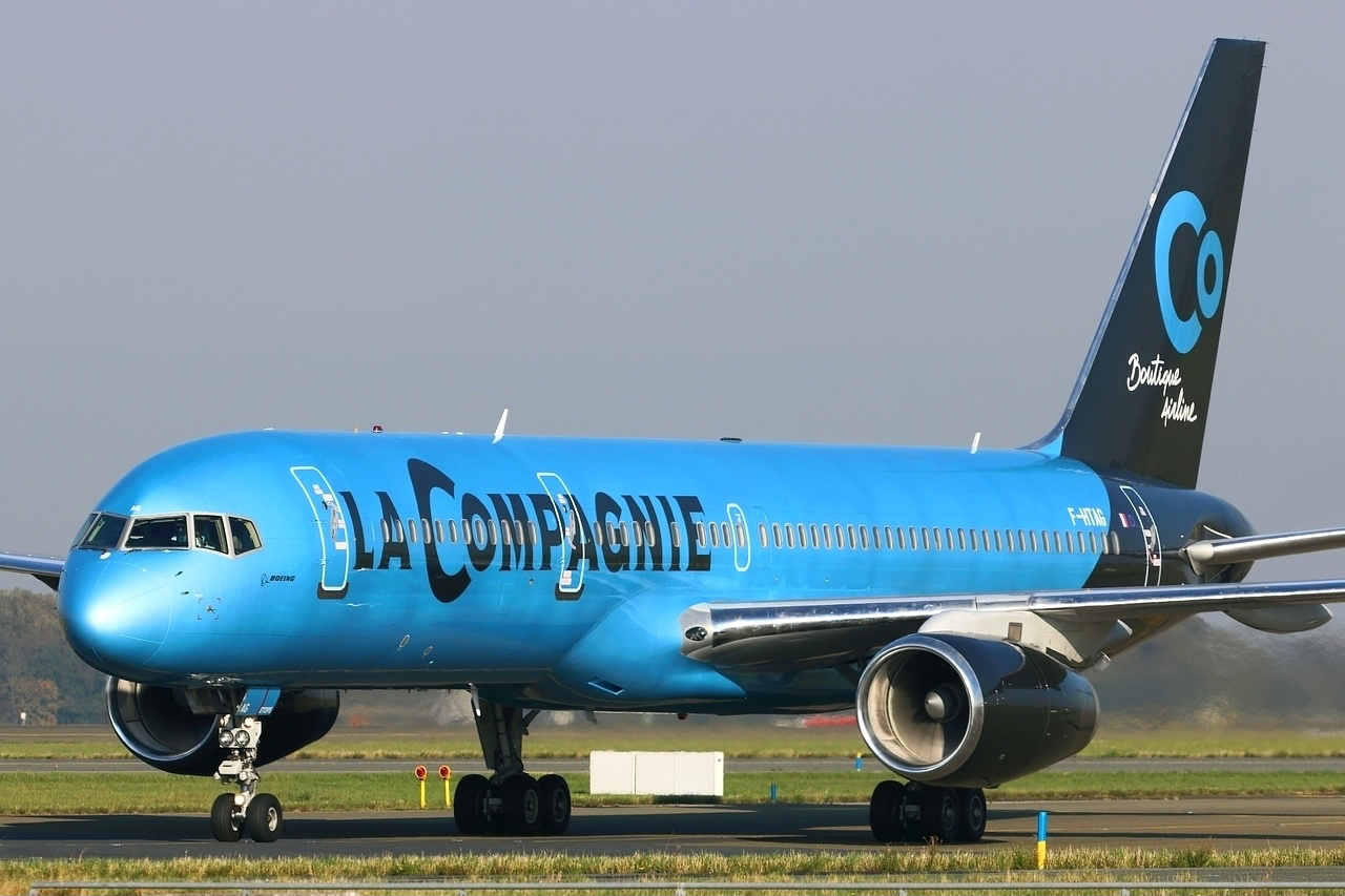 La Compagnie Boeing 757-200 at CDG